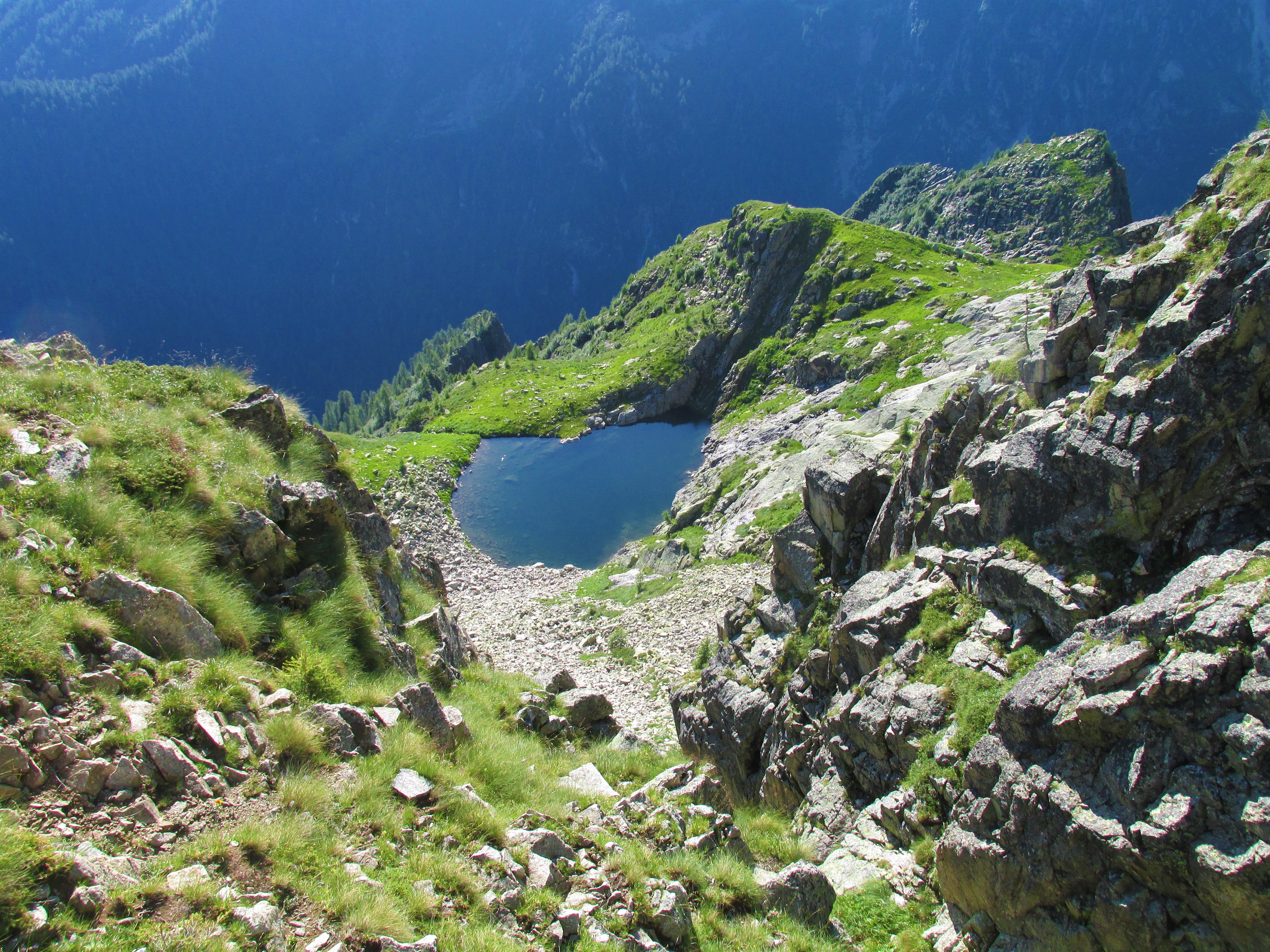 Lago Negro of Cima d'Asta